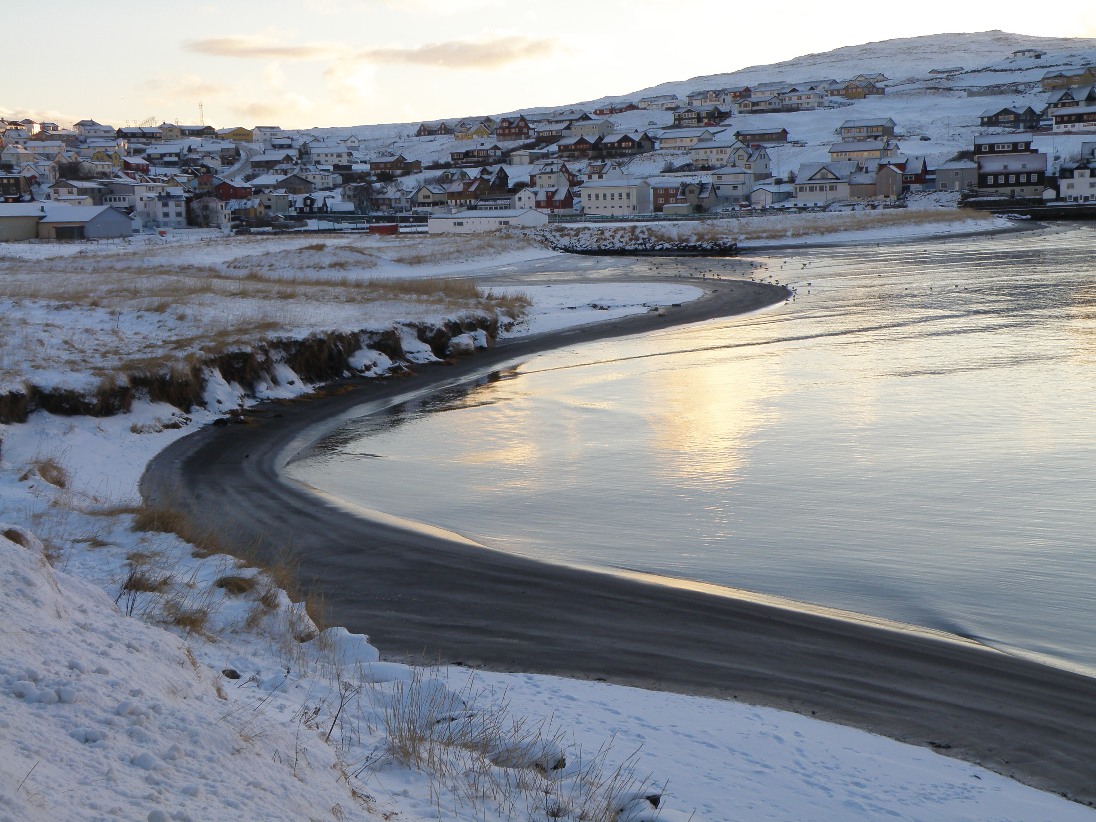 White Christmas in Sørvágur. This photo was taken on Christmas Day on 25 December 2010 in the village Sørvágur on the island Vágar in the Faroe Islands. A part of the fjord Sørvágsfjørður is visible on this photo. The airport Vága Airport is just east Sørvágur. The lights to the airport are visible above the houses to the left on this photo. Føroyskt: Myndin varð tikin í Sørvági 1. jóladag 2010. Tað vóru hvít jól í Føroyum í 2010. Sørvágur er ein av vestastu bygdunum í Vágunum. Tó eru Bøur og Gásadalur longri vesturi. Ein partur av Sørvágsfirði sæst á myndini.